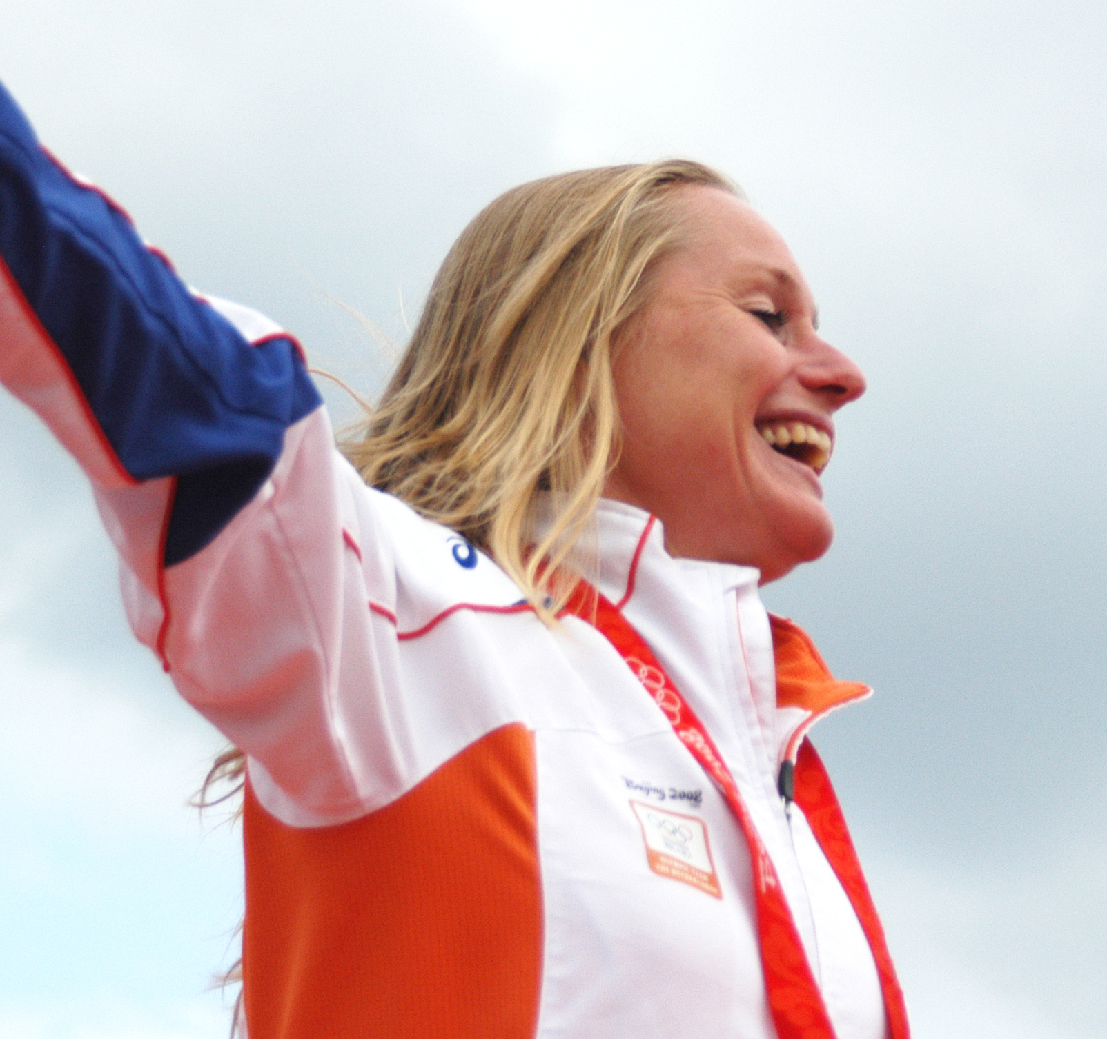 Minke Booij at the Olympic welcome in the Olympic Stadium in Amsterdam, the Netherlands